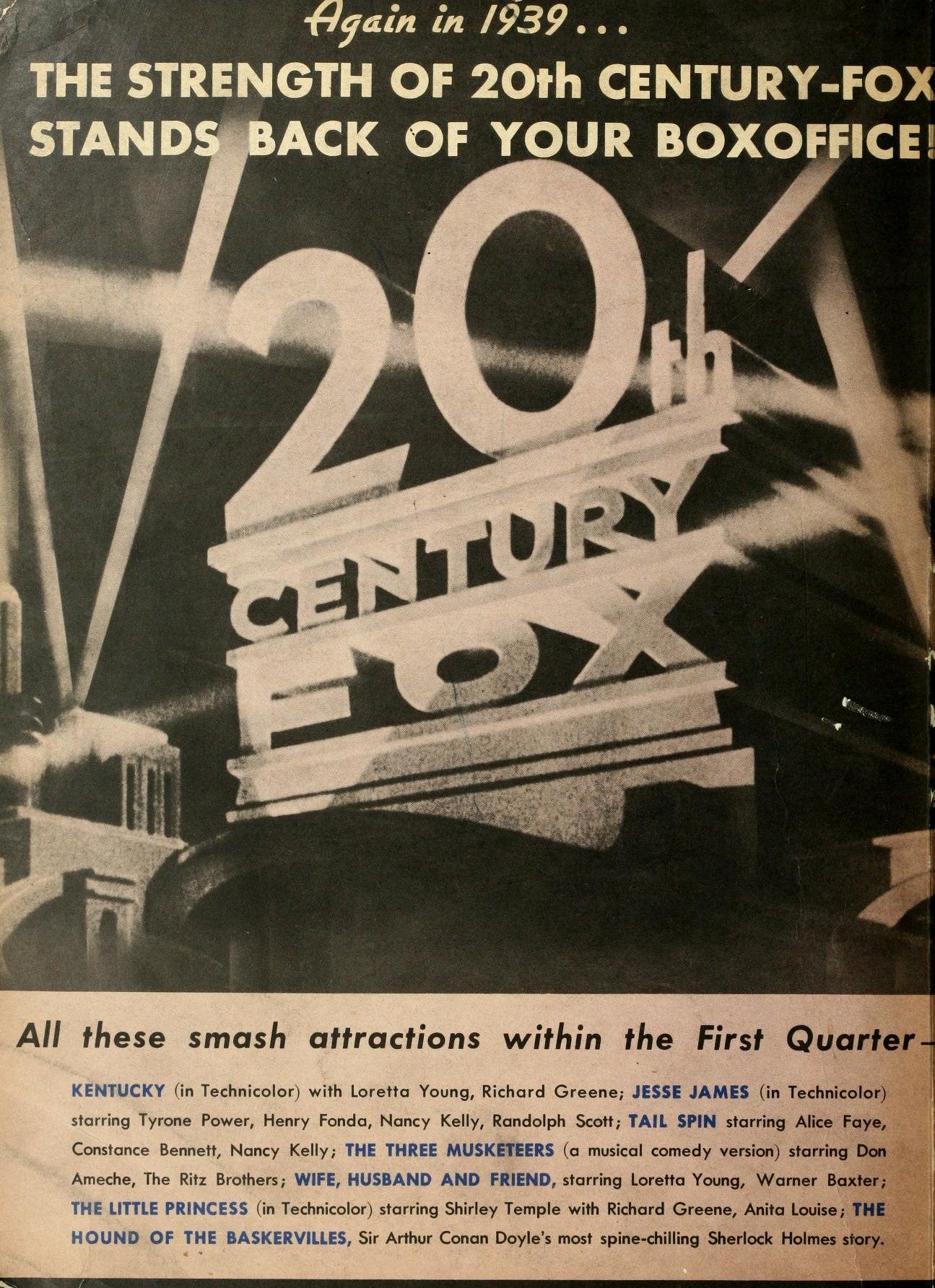 Again in 1939 ... 20th Century Fox